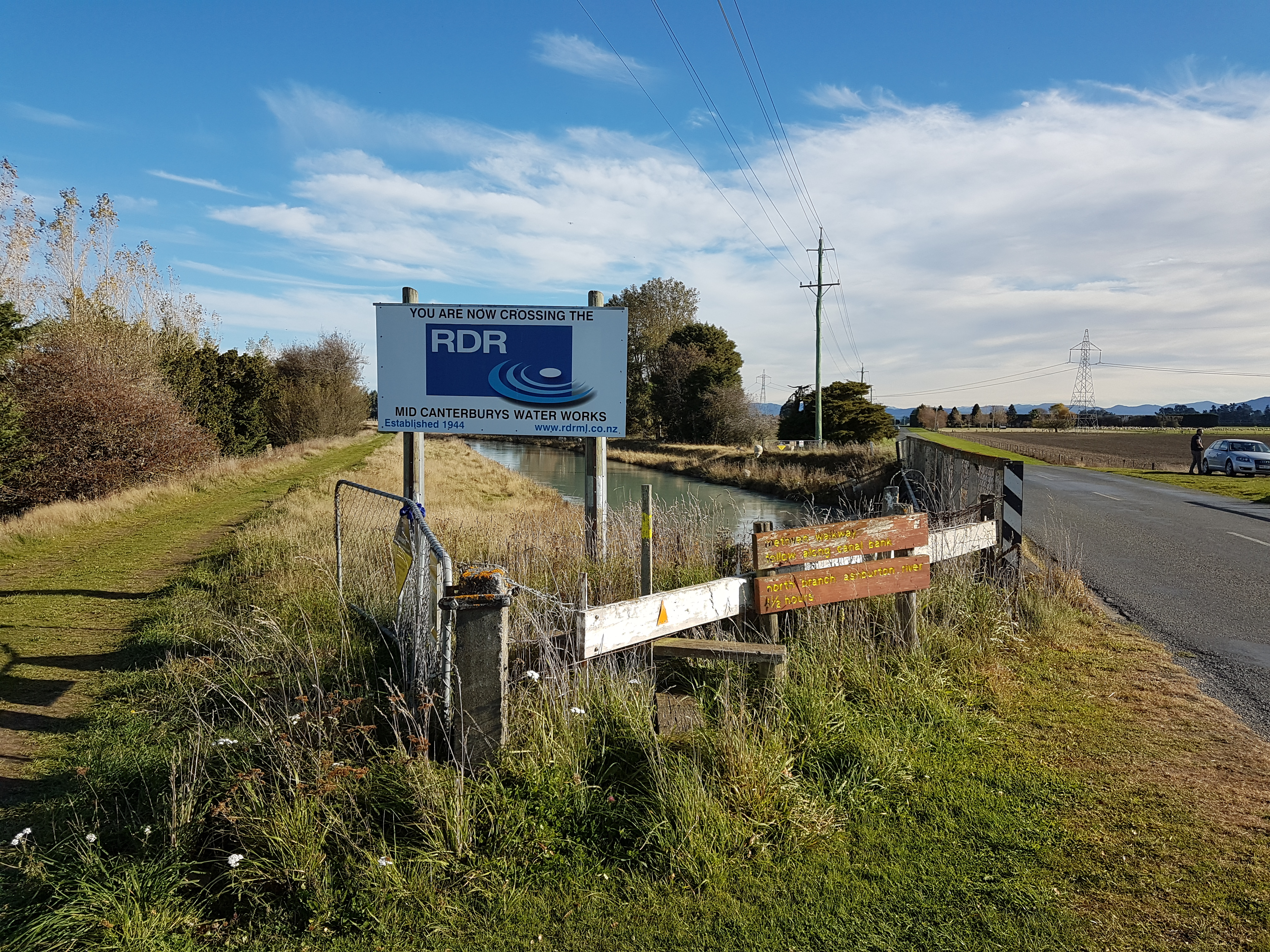 This image forms part of a series showing aspects of the canal and associated structures that were constructed to divert water from the Rangitata river for irrigation and power generation purposes. The canal terminates at the Highbank power station which releases the water into the Rakaia river.